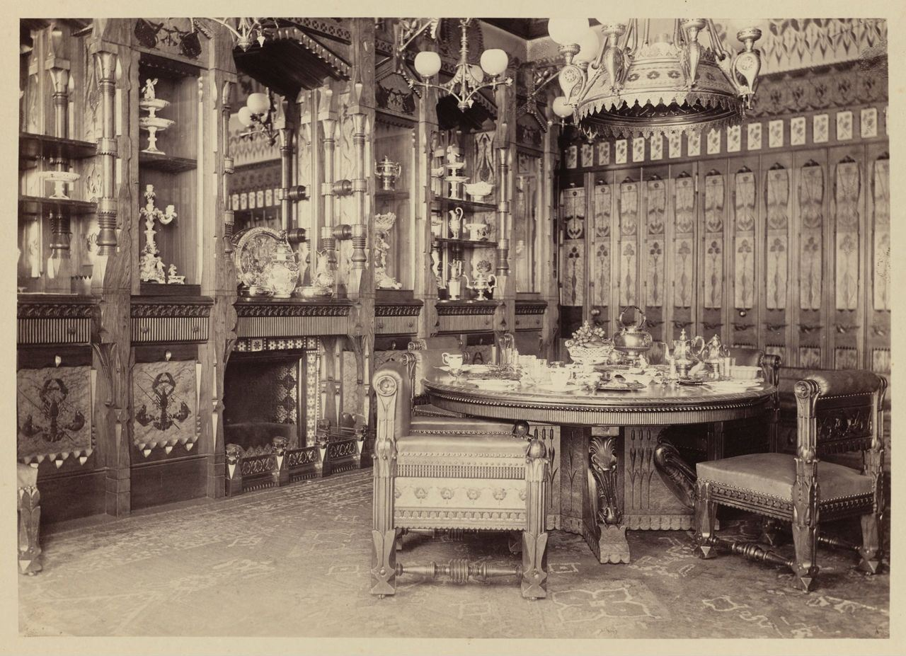 Dining room of the Theodore Roosevelt, Sr. house, 6 W. 57th St., New York, NY (demolished).